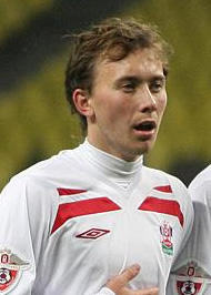 Russian footballer Roman Kontsedalov